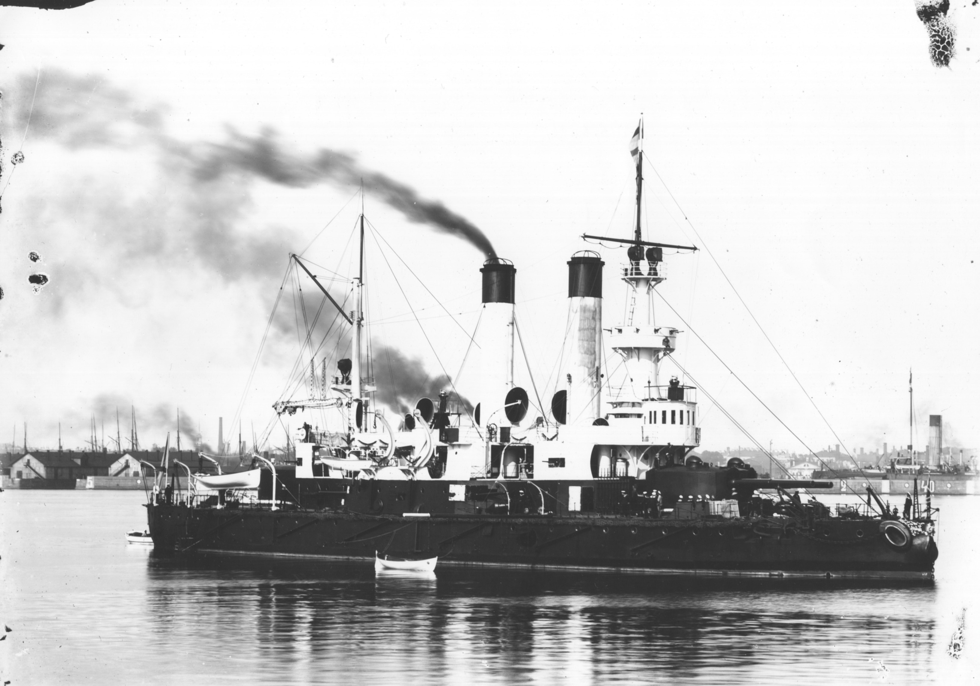 Imperial Russian coastal battleship General-admiral Apraksin.